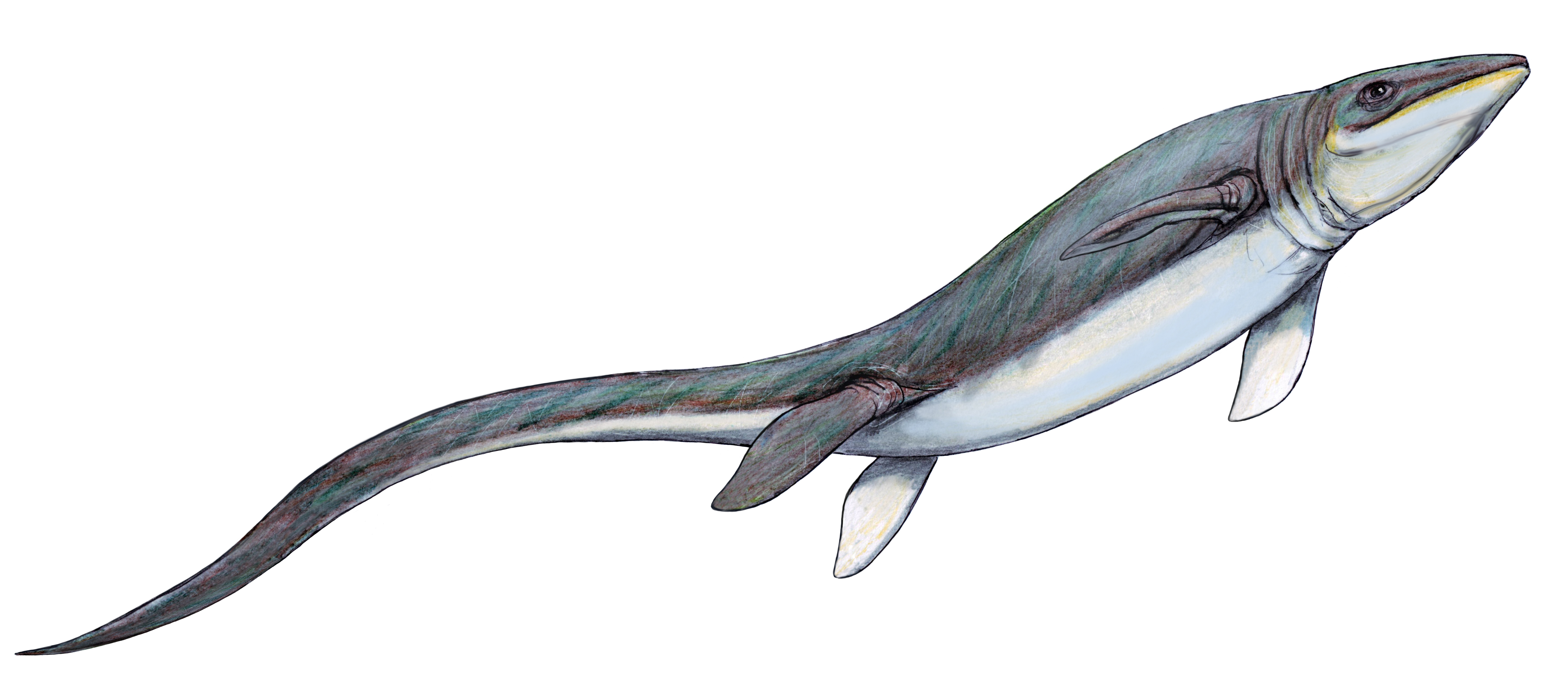 Omphalosaurus - stem-ichthyopterygian witn blunt theeth. From Middle Triassic (Asinian-Ladinian) of Nevada and Germany. About 3 m long.